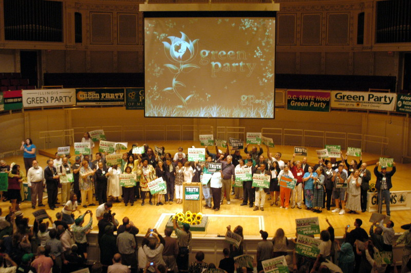 Green Party (USA) convention, Chicago, 12 July 2008, after Cynthia McKinney wins nomination.